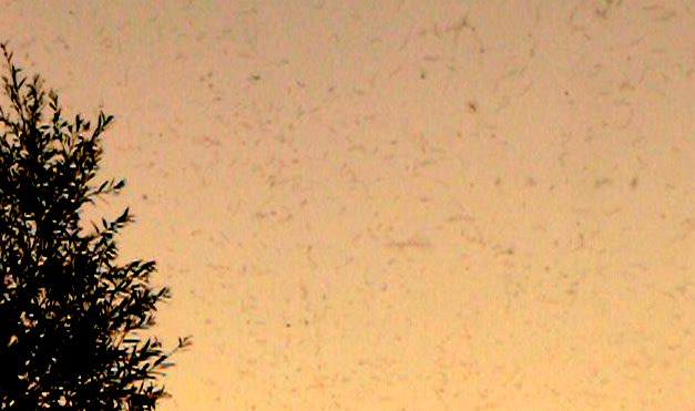 Aeroplankton photographed in Meung-sur-Loire, above the river Loire (France). Several dozens of insects per m3 of air are present over the entire width of river. During all the day thousands of swallows hunt them and during the night a large number of bats and spiders captured in the unusually high number because of phenomena of light pollution where it exists.